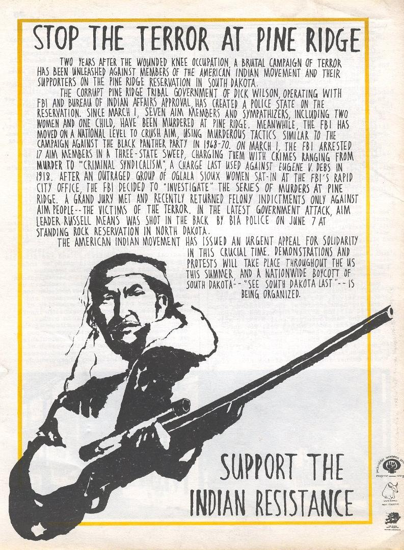 Article from Osawatomie (n°2), the clandestine newspaper edited by the Weather Underground, concerning the events in Pine Ridge. The same year, Leonard Peltier was arrested there.